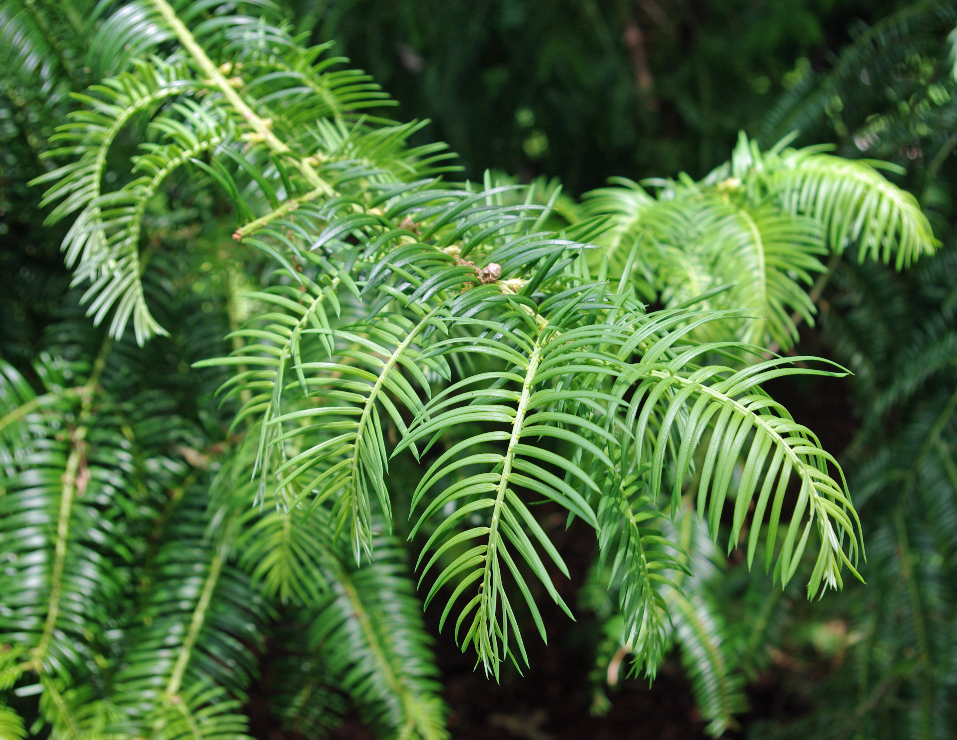 Cephalotaxus sinensis, Arnold Arboretum, Boston, Massachusetts